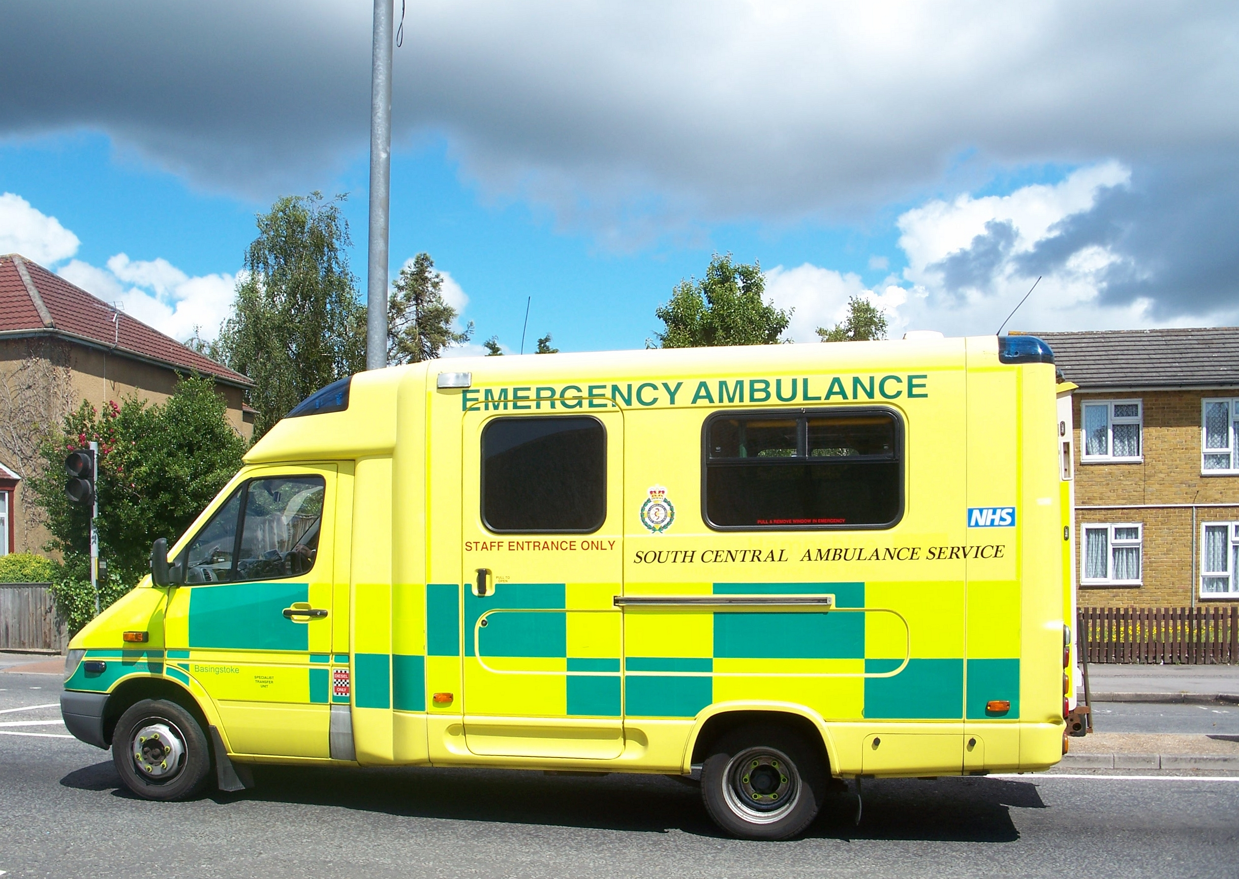 Emergency_Ambulance_Southampton_England_2008